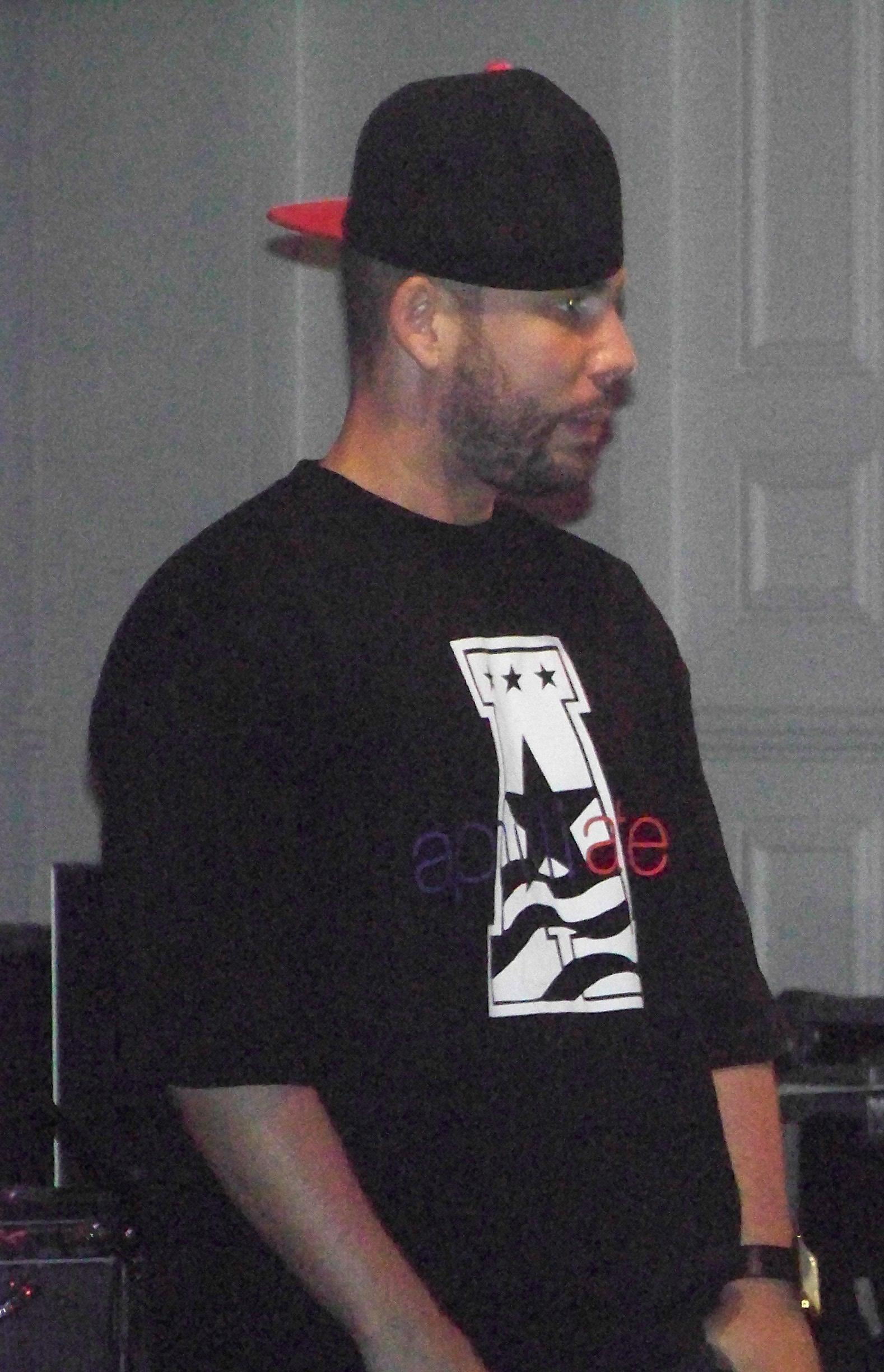 Rapper DJ Drama, cropped from original image.